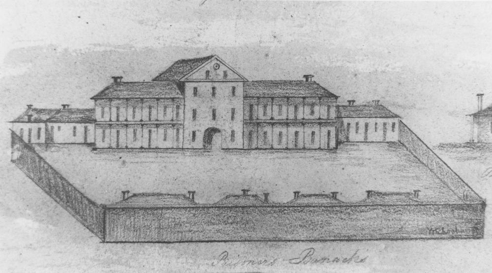 Sketch of the Convict Barracks, Brisbane, 1832. Detail from a sheet of pencil drawings of public buildings at Moreton Bay, September 1832. Original drawings held in the Mitchell Library, Sydney, New South Wales. Attributed to Sockering. Reproduced in J. G. Steele's Brisbane Town in Convict Days, plate 80. (Description supplied with photograph.).